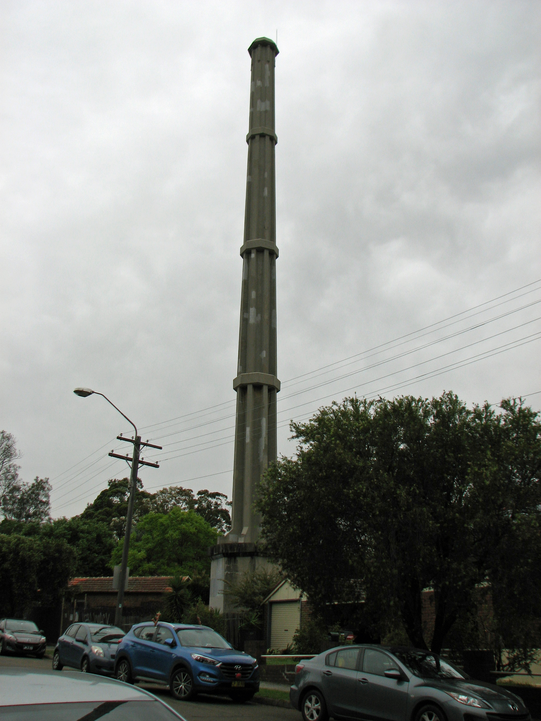 A sewer ventillation stack located on a small parcel of land adjacent to 12 Paisley Road, Croydon, New South Wales.